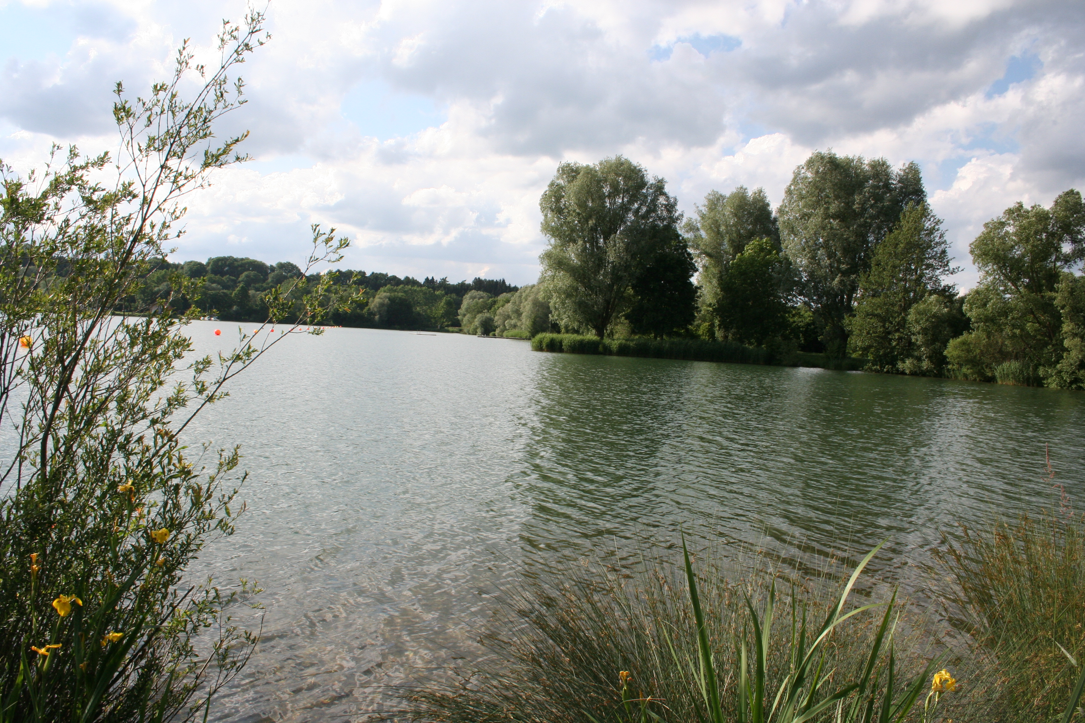 Oberrieder Weiher